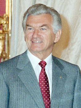 Bob Hawke, Australian PM, cropped.